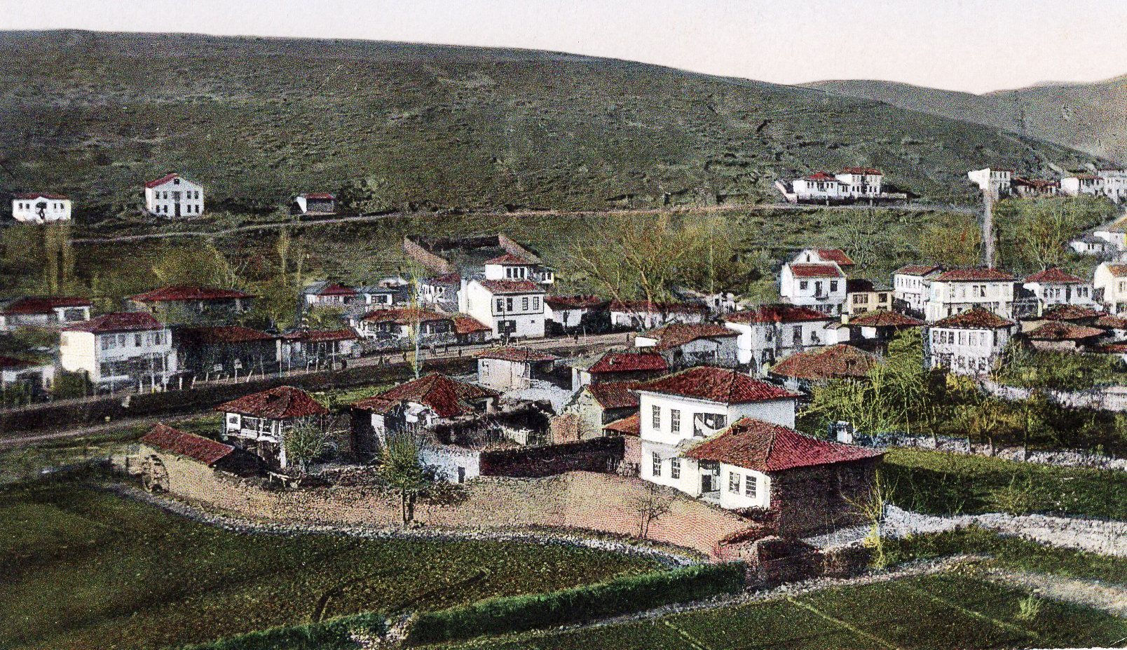 Postcard of Kočani, from 1930's This media file is produced by Wikipedian in Residence in Category:Wikipedian in Residence at DARM in 2016.